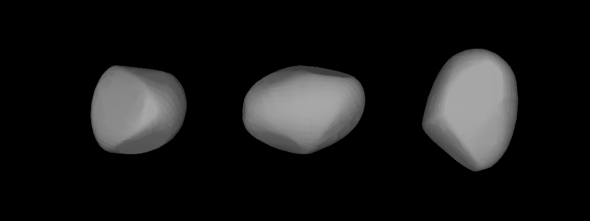 A three-dimensional model of 125 Liberatrix that was computed using light curve inversion techniques.